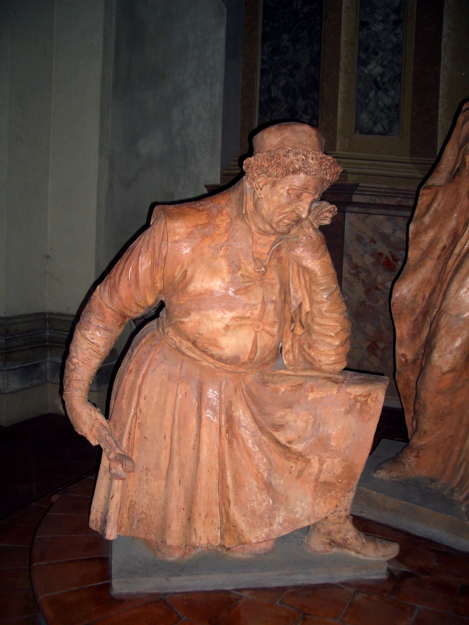 Alfonso Lombardi, "Lamentation of Christ", (detail: Nicodemus), ca. 1522-26, Bologna, St Peter Cathedral.